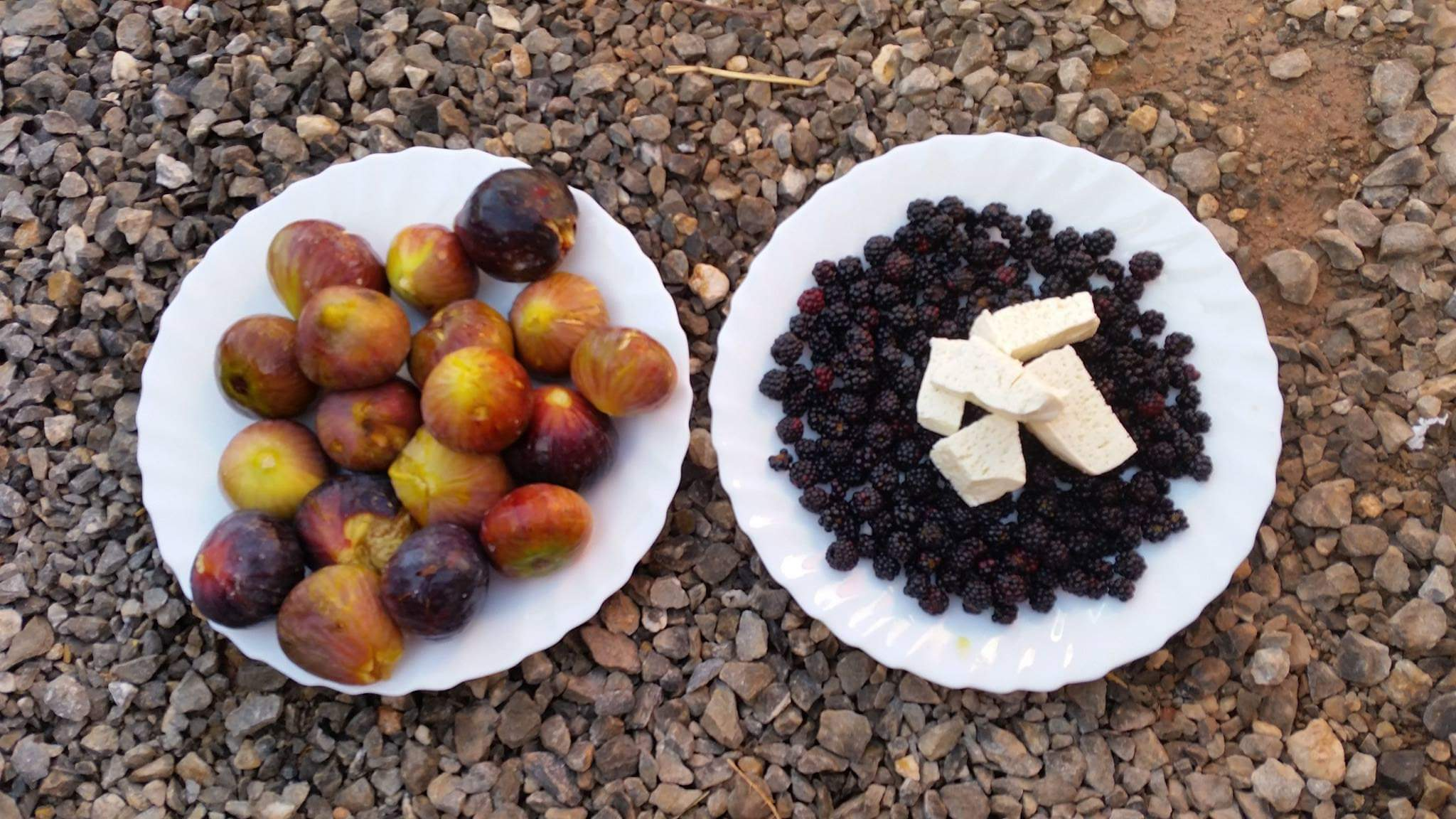 This is an image with the theme "Africa on the Move or Transport" from: Morocco